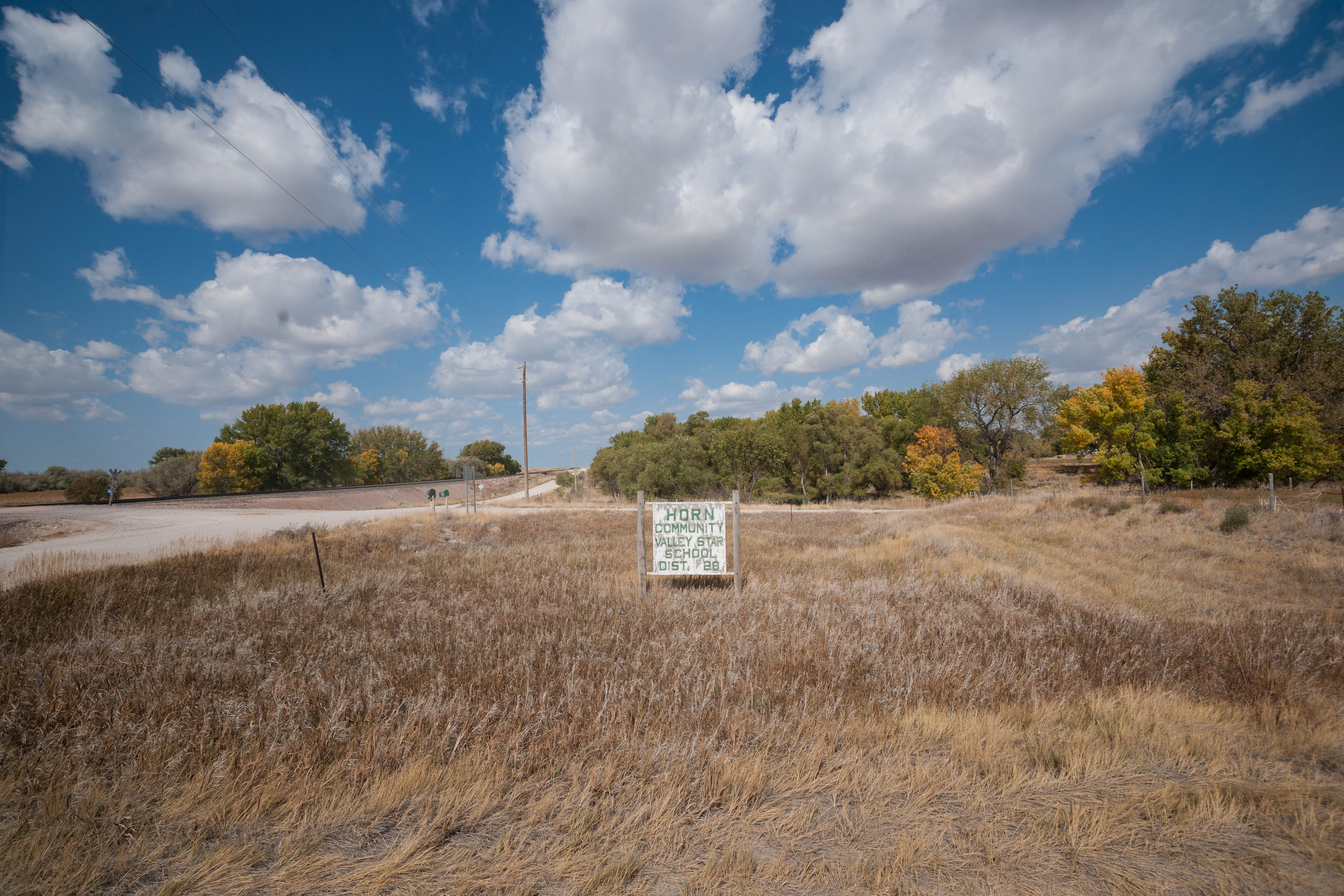 From